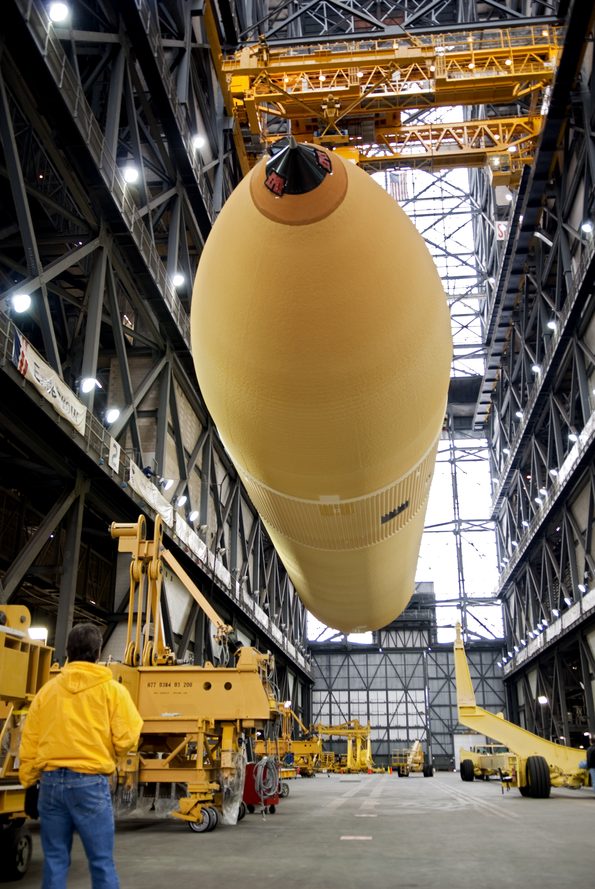 At NASA’s Kennedy Space Center in Florida, External Tank-136 is lifted from its transporter in the transfer aisle of the Vehicle Assembly Building as operations begin to transfer it into a test cell. The fuel tank arrived at Kennedy from NASA's Michoud Assembly Facility on March 1 aboard the Pegasus barge and will be used on space shuttle Atlantis' STS-132 mission. The six-member STS-132 crew will deliver an Integrated Cargo Carrier and a Russian-built Mini-Research Module to the International Space Station. STS-132 is the 34th mission to the station and the 132nd space shuttle mission in the program. Launch is targeted for May 14